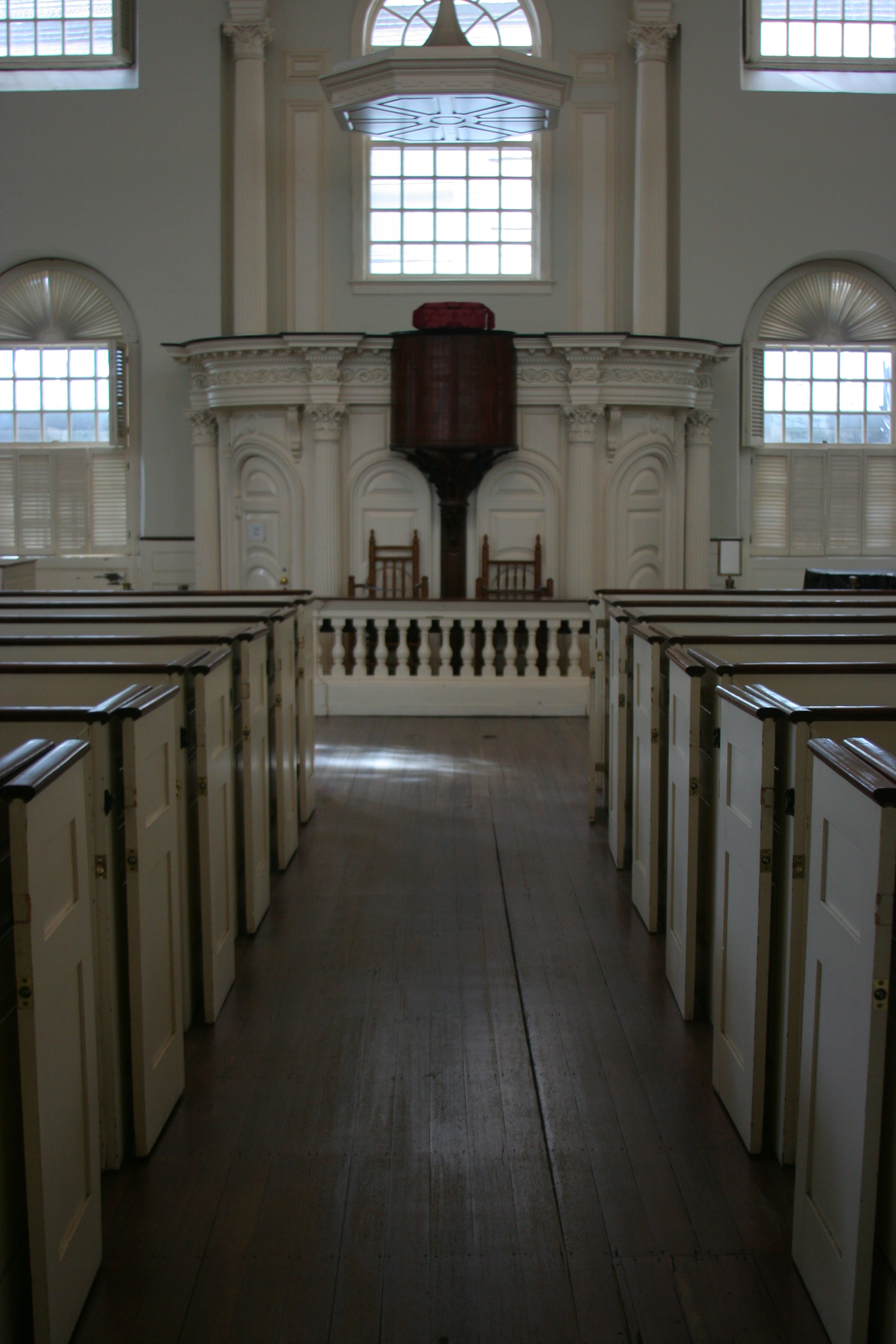 Old South Meeting House